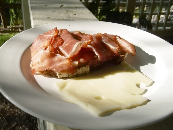 Jarlsberg cheese and schinkenbrot (shaved Westphalian ham on buttered rye bread)